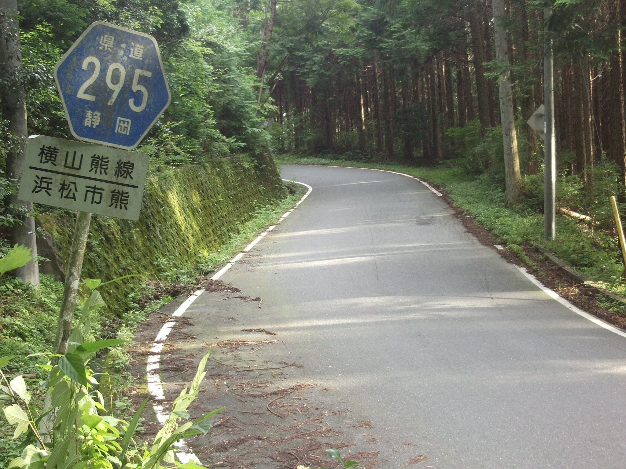 Shizuoka prefectural road No.295 in Kuma, Tenryu-ku, Hamamatsu, Shizuoka.